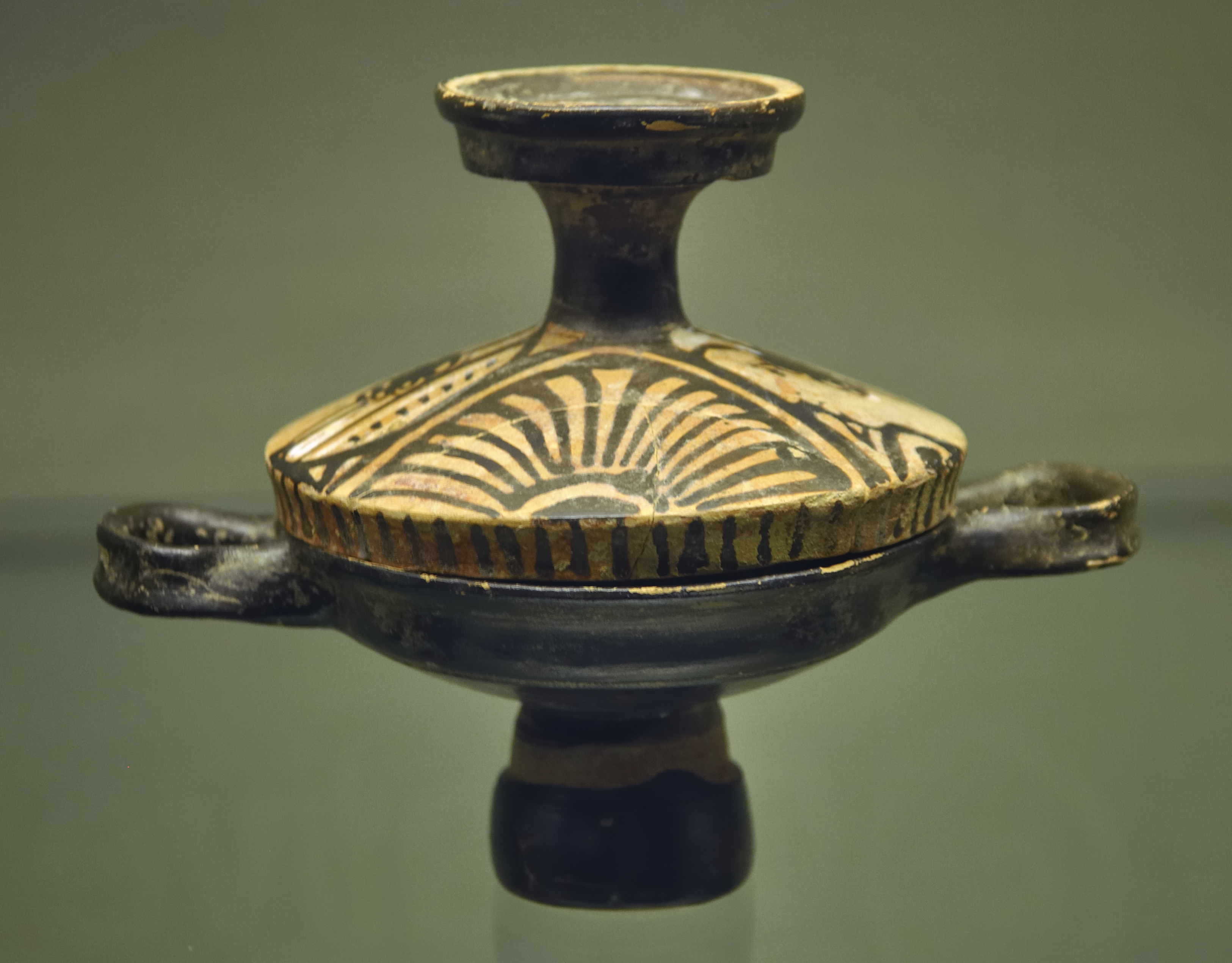 Picture taken in Hetjens-Museum Düsseldorf before Duisburg summer meetup 2010.